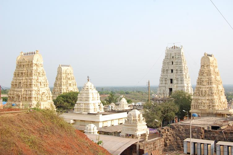 Venkateswara Vishnu temple